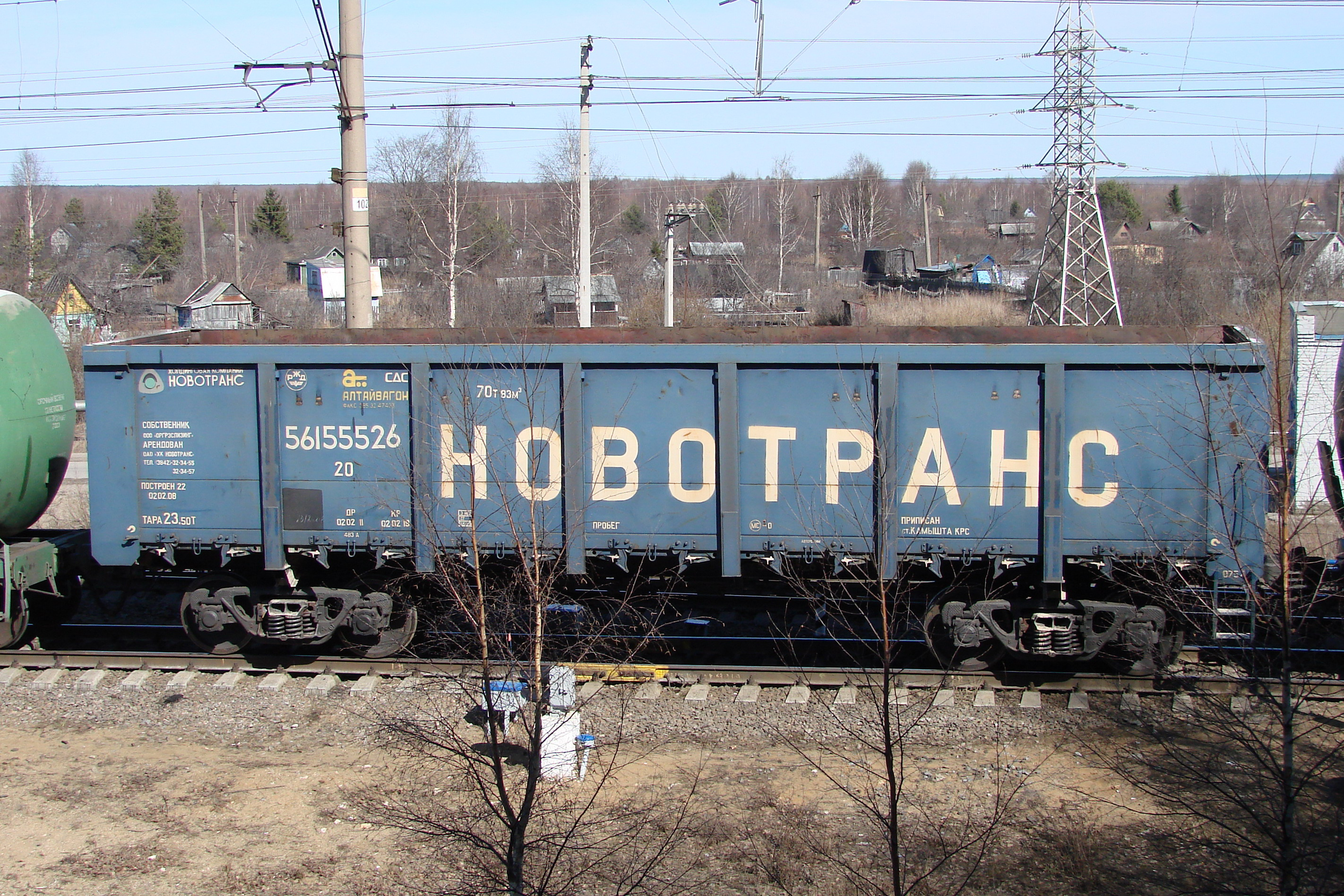 Russian Railways, Gondola (rail) «ALTAIVAGON»